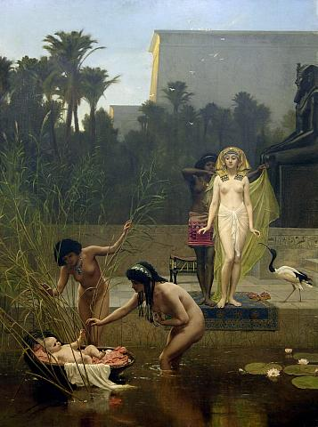 the second version of this motif